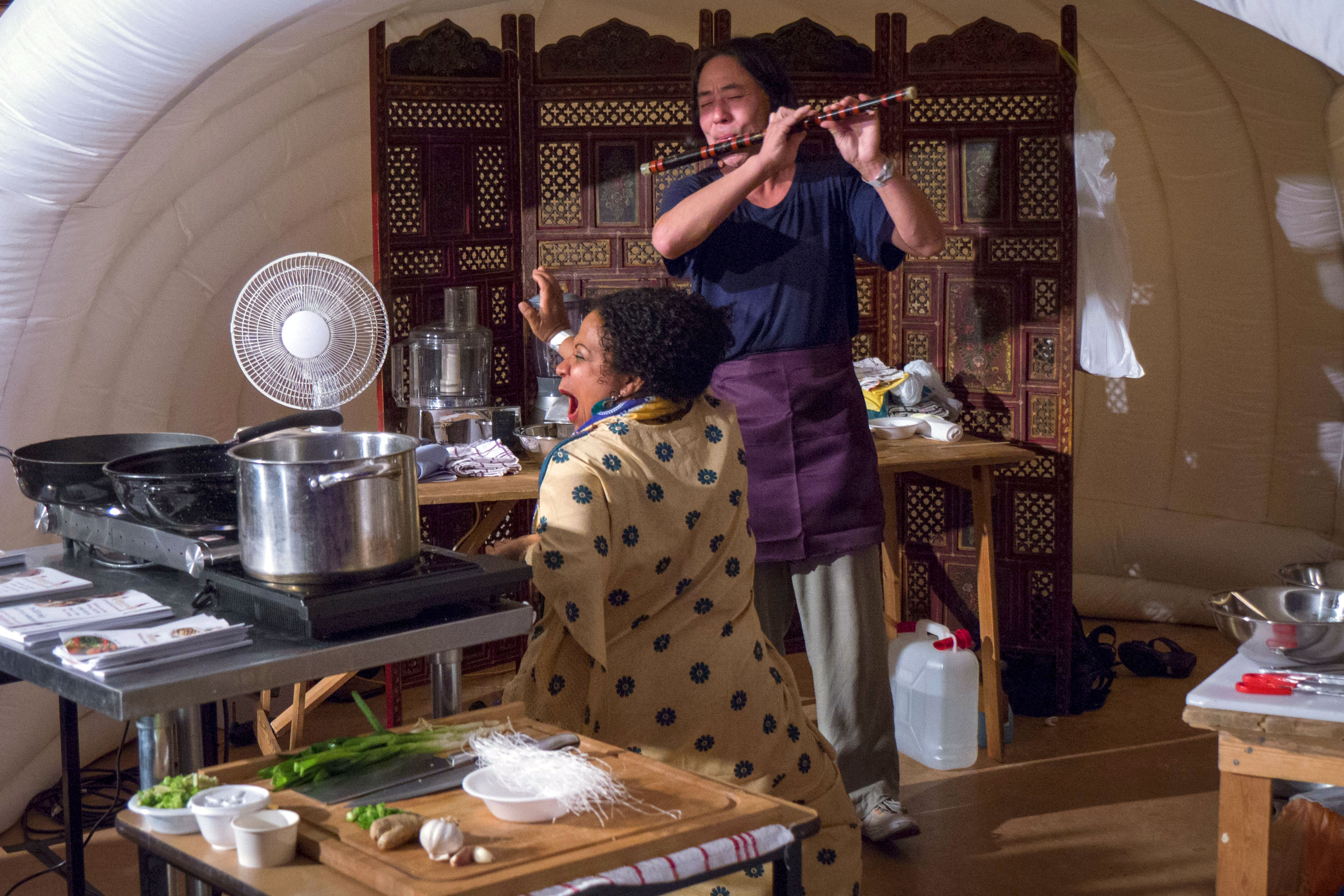 Musicport 2014